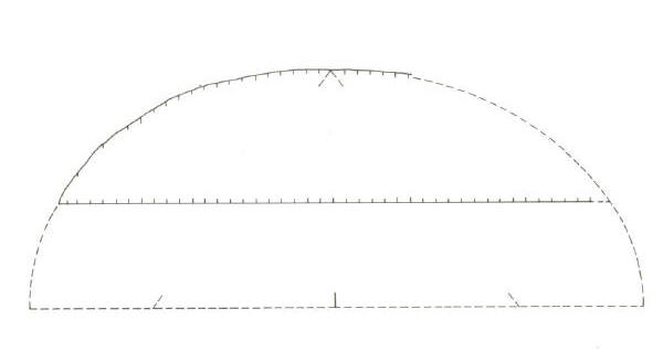 In the Annales du Service des Antiquites de l'Egypt, Cairo, Vol 8, 1907, pgs 237-241 Daressy provided a report on the ellipse found outside the tomb. Following is a copy of the drawing, as published by Dieter Arnold in Building In Egypt, Oxford University Press, 1991, pg 22.